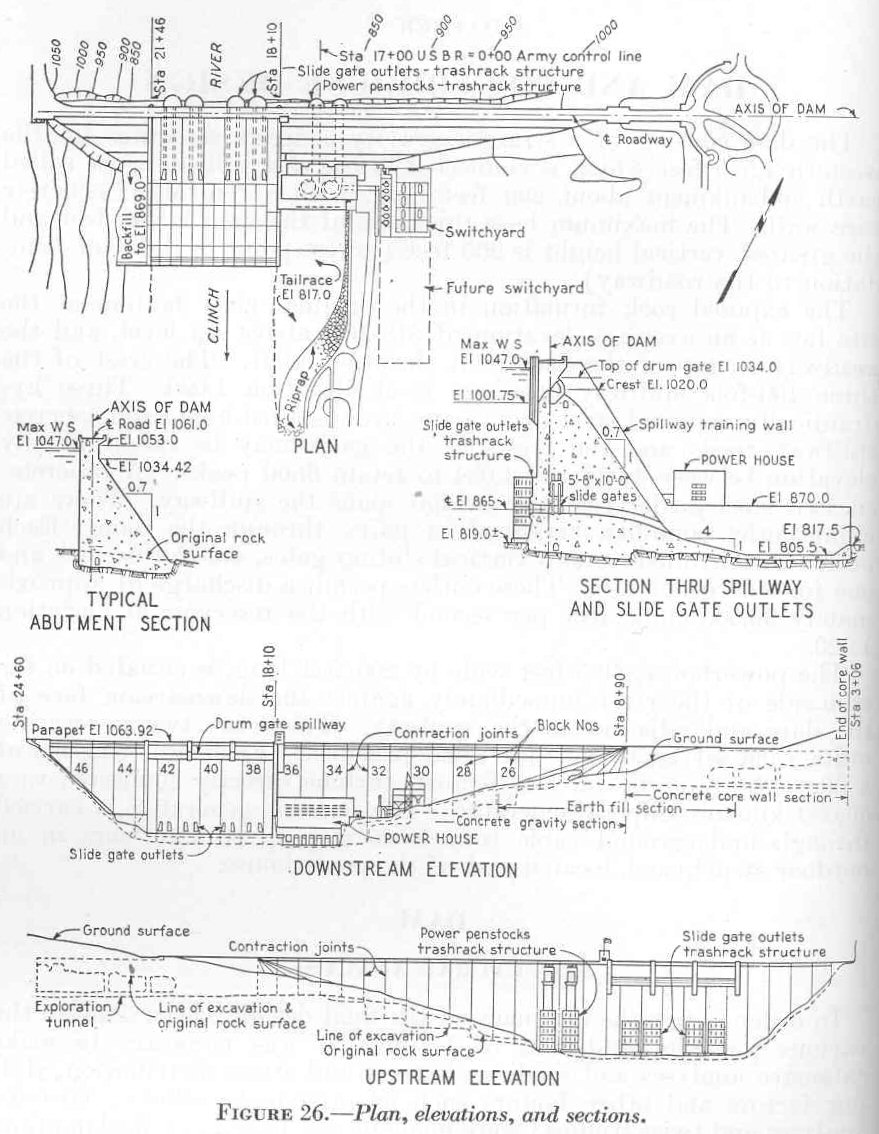 The original design plan for Norris Dam, built by the TVA on the Clinch River in Tennessee, USA. TVA adopted the design from a previous design the U.S. Army Corps of Engineers had drafted for the "Cove Creek Project" in the late 1920s. The design was modified with the help of U.S. Bureau of Land Reclamation engineers.